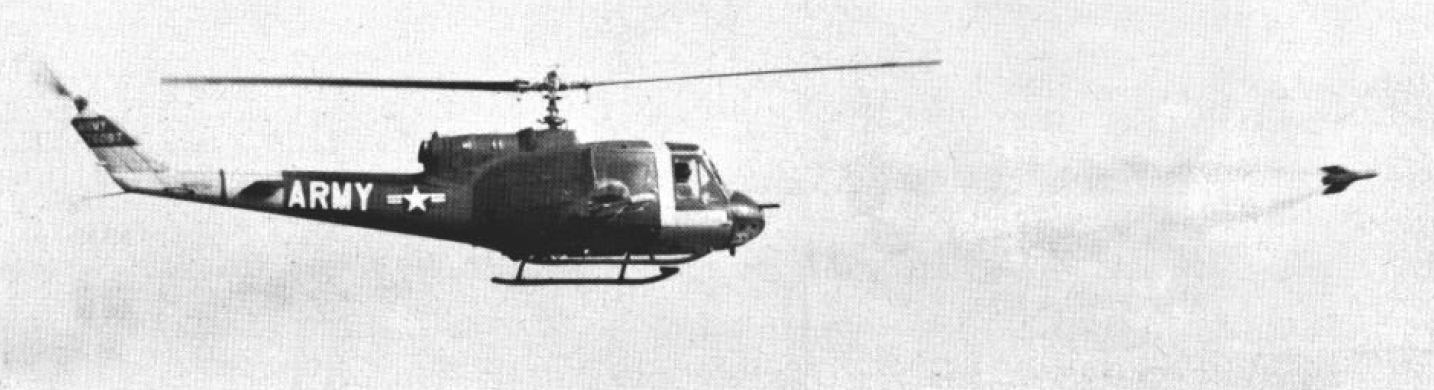 A U.S. Army Bell HU-1A-BF Iroquois (s/n 57-6097, redesignated UH-1A in 1962) launches a Nord Aviation SS.11 anti-tank-missile during tests. The U.S. Army adopted the French SS.11 as the AGM-22A after the faliure of the SSM-A-23 Dart missile.